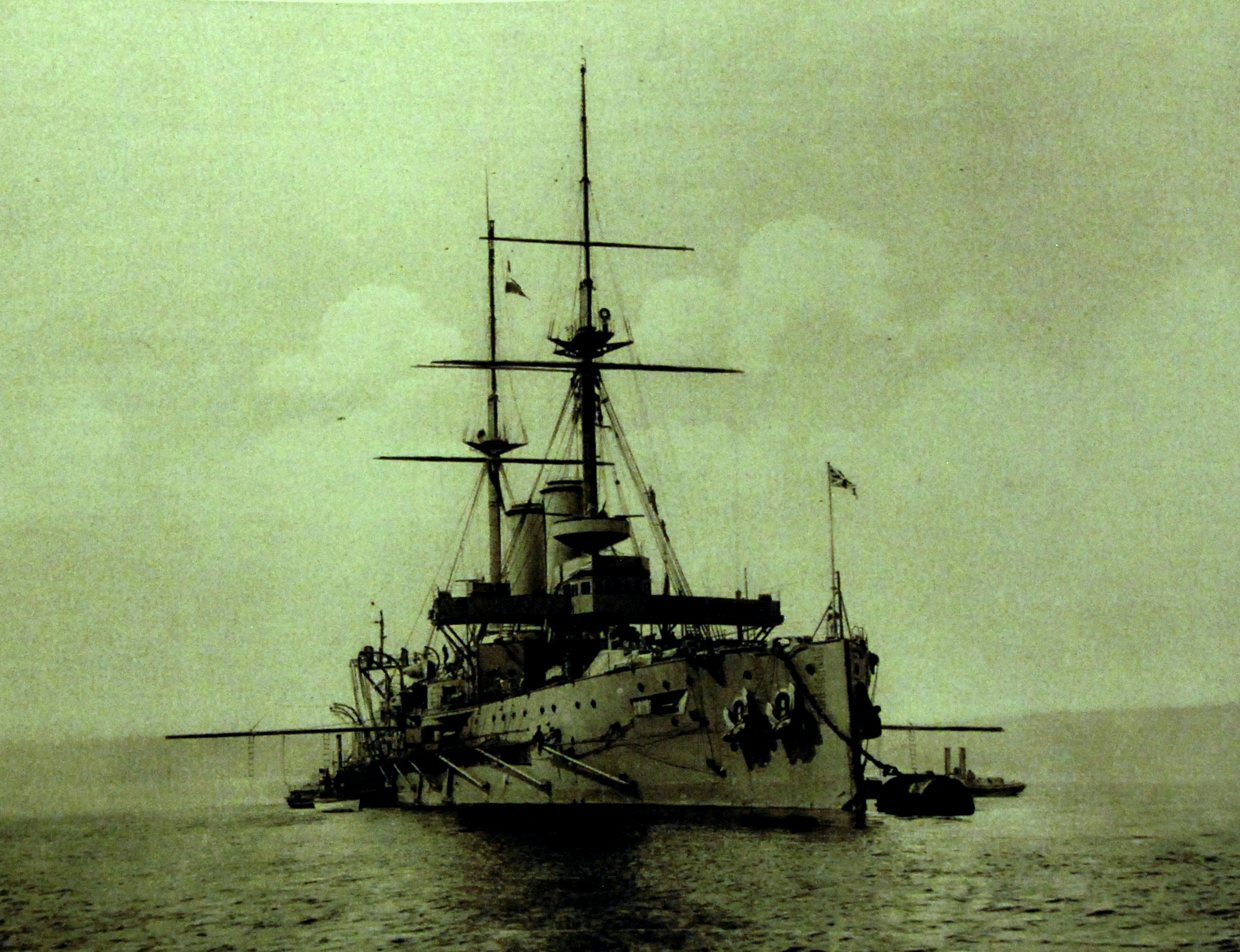 Lot 3447-6: Royal Navy battleship HMS Formidable, starboard bow view. On January 1, 1915, she was sunk by two German torpedoes while performing exercises in the English Channel. Halftone image from the Booklet “The Great War in Pictures” showing the activities of the German armed forces during World War in 1915. These were intended for propaganda purposes. Published by “Deutscher Uberseedienst”, Berlin, Germany. Edited by Jos. Schumacher, published by Georg Stilke. (2015/10/16).